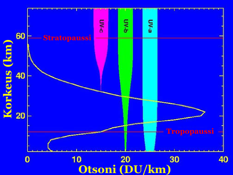 Ozone altitude against UV radiation with Finnish titles, see Image:Ozone altitude UV graph.jpg